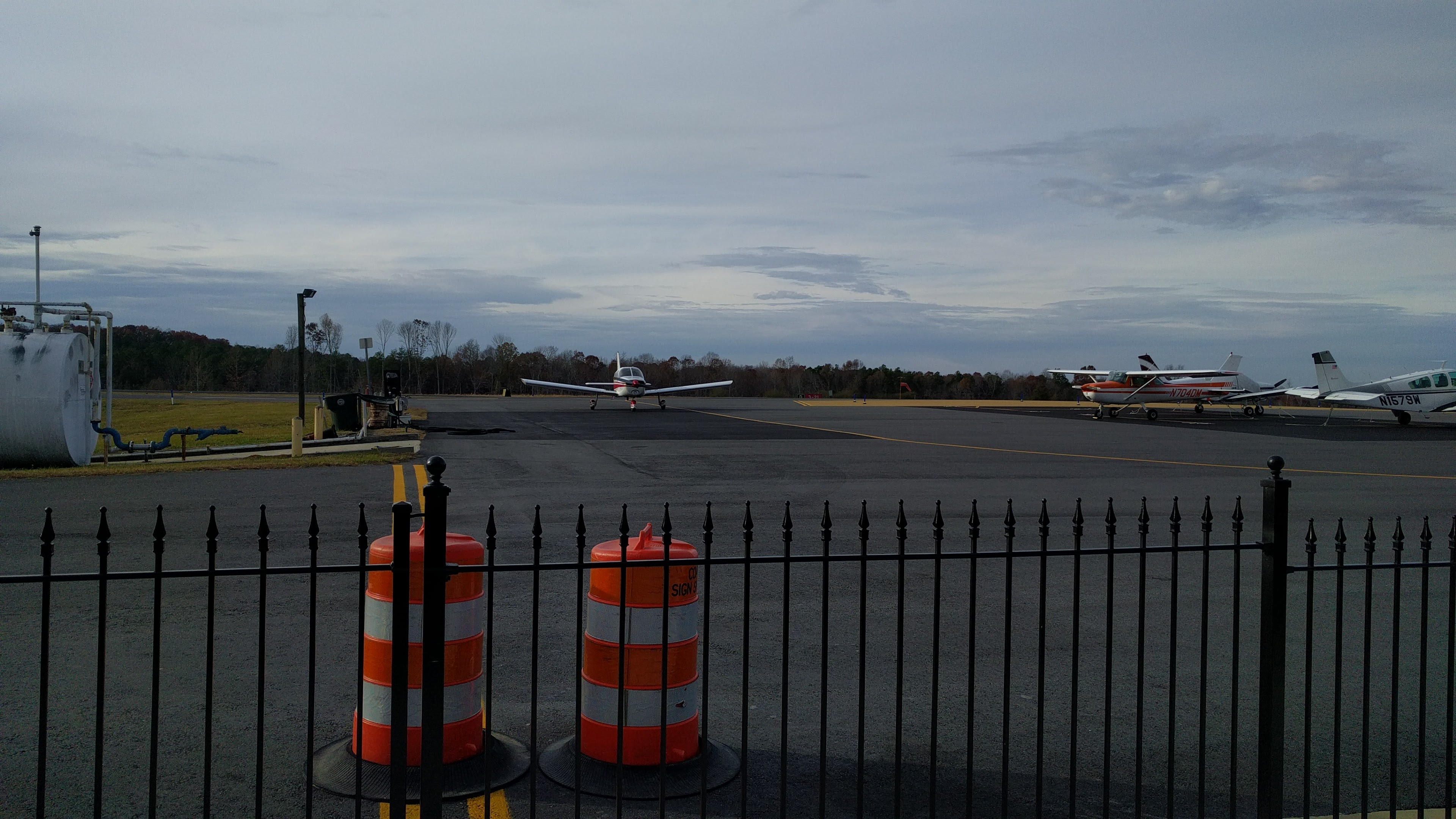 A plane desires some jet fuel after a short flight.